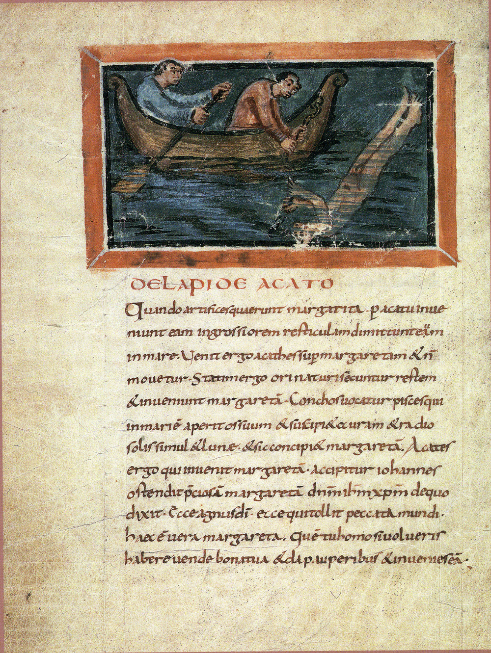 Pearls fishers, Bern Physiologus (IX century)